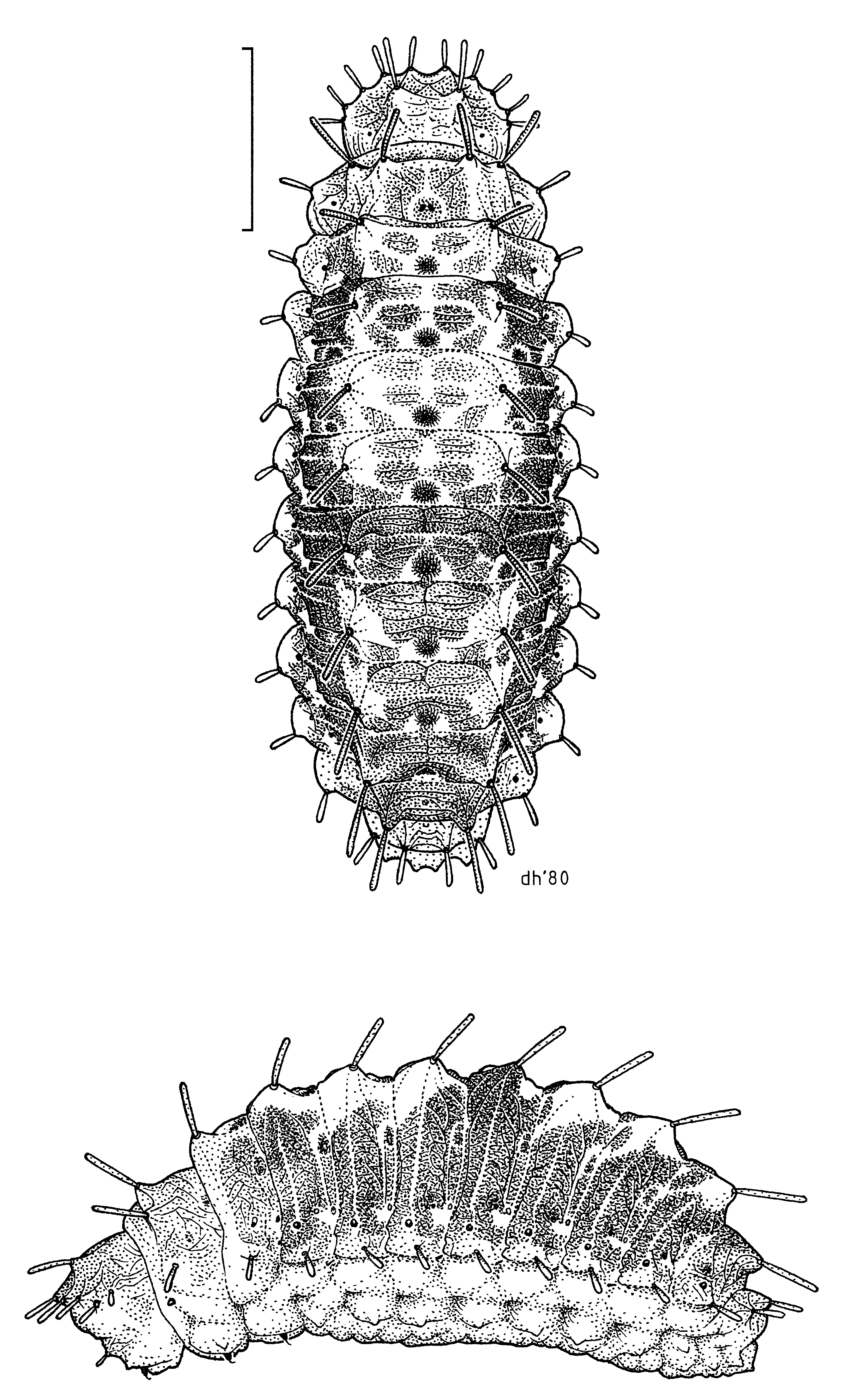 (Lepidoptera: Micropterigidae) Micropardalis doroxena (now known as Sabatinca doroxena) larva illustrated by Des Helmore.